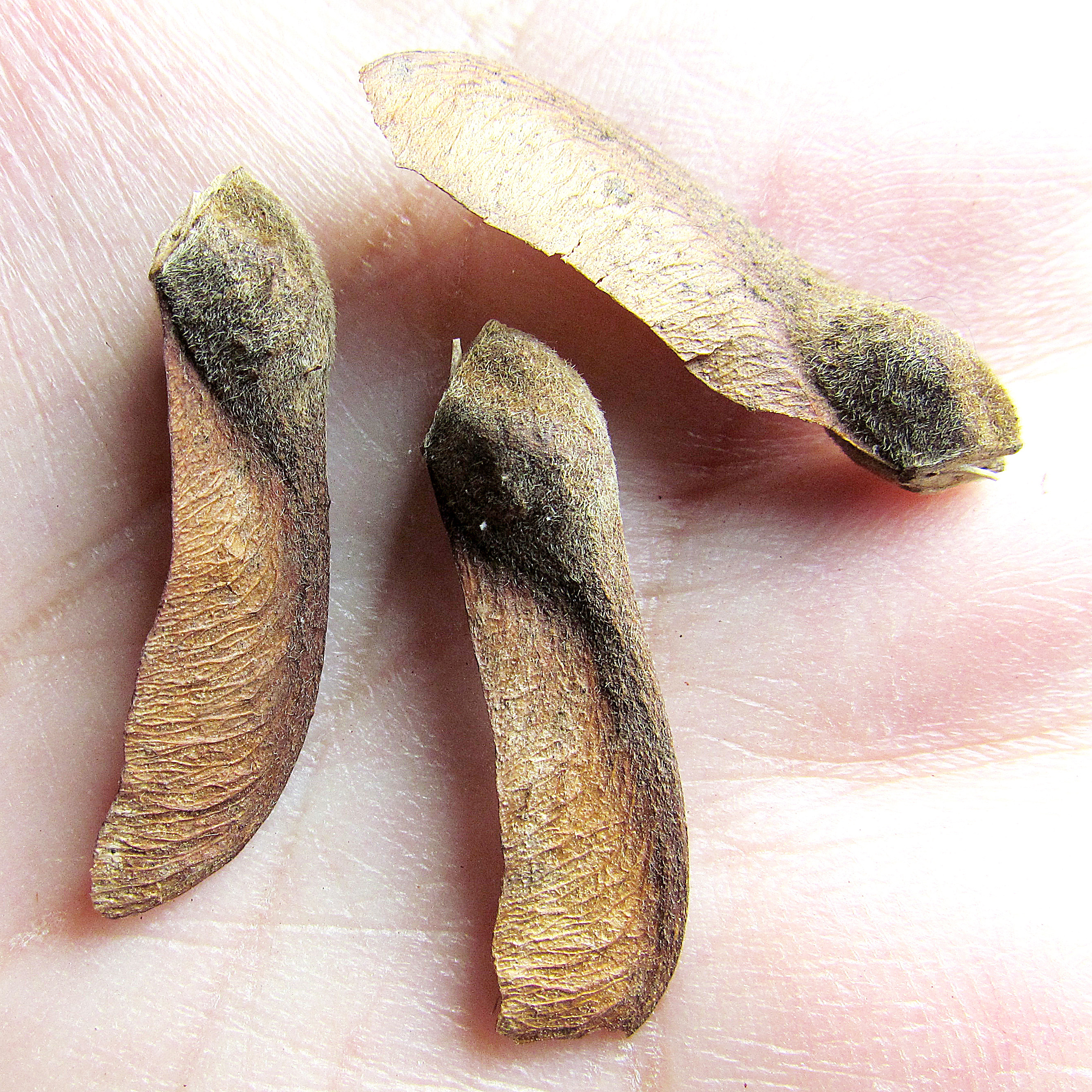 Acer griseum fruits